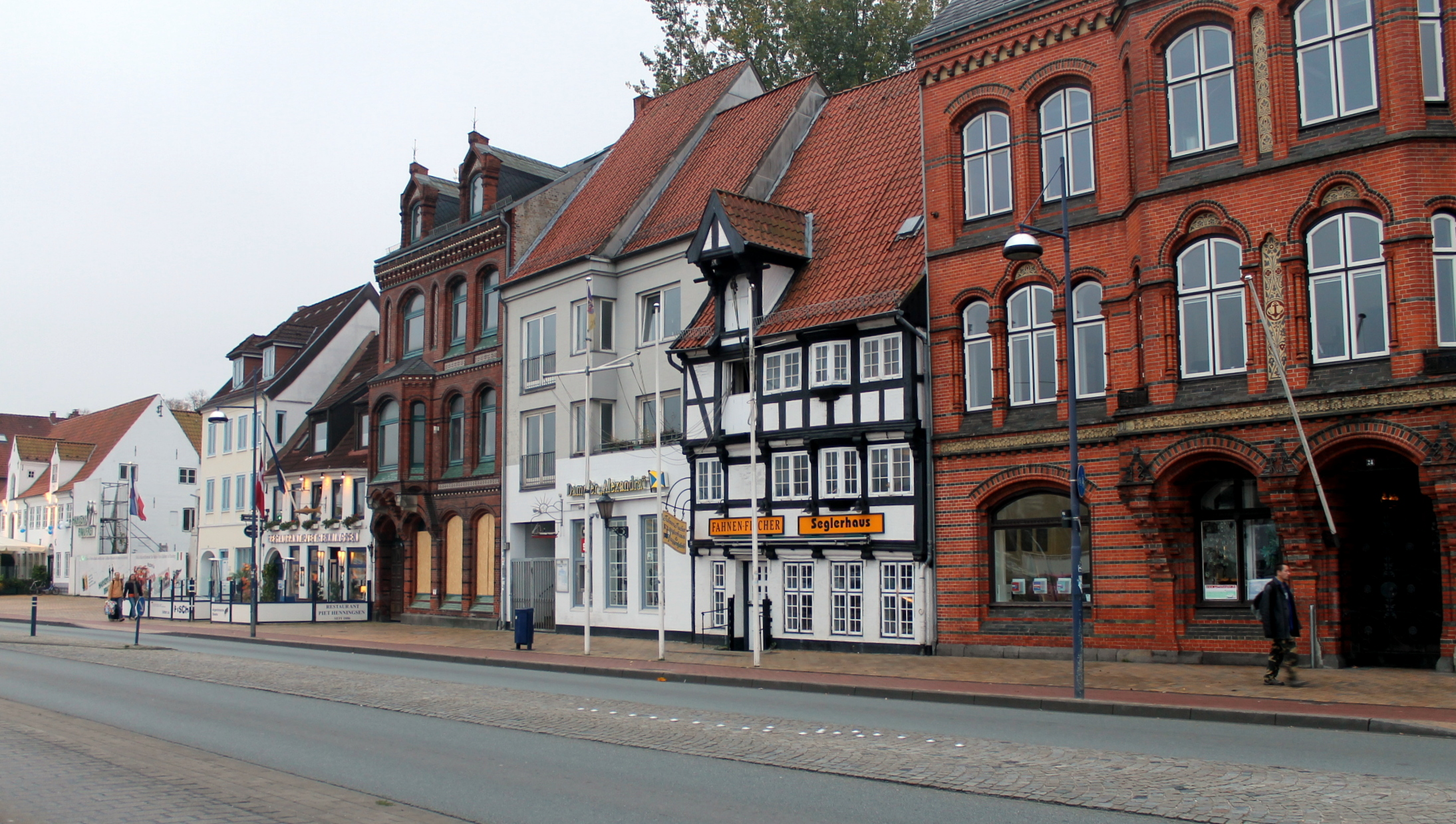 Flensburg, Germany